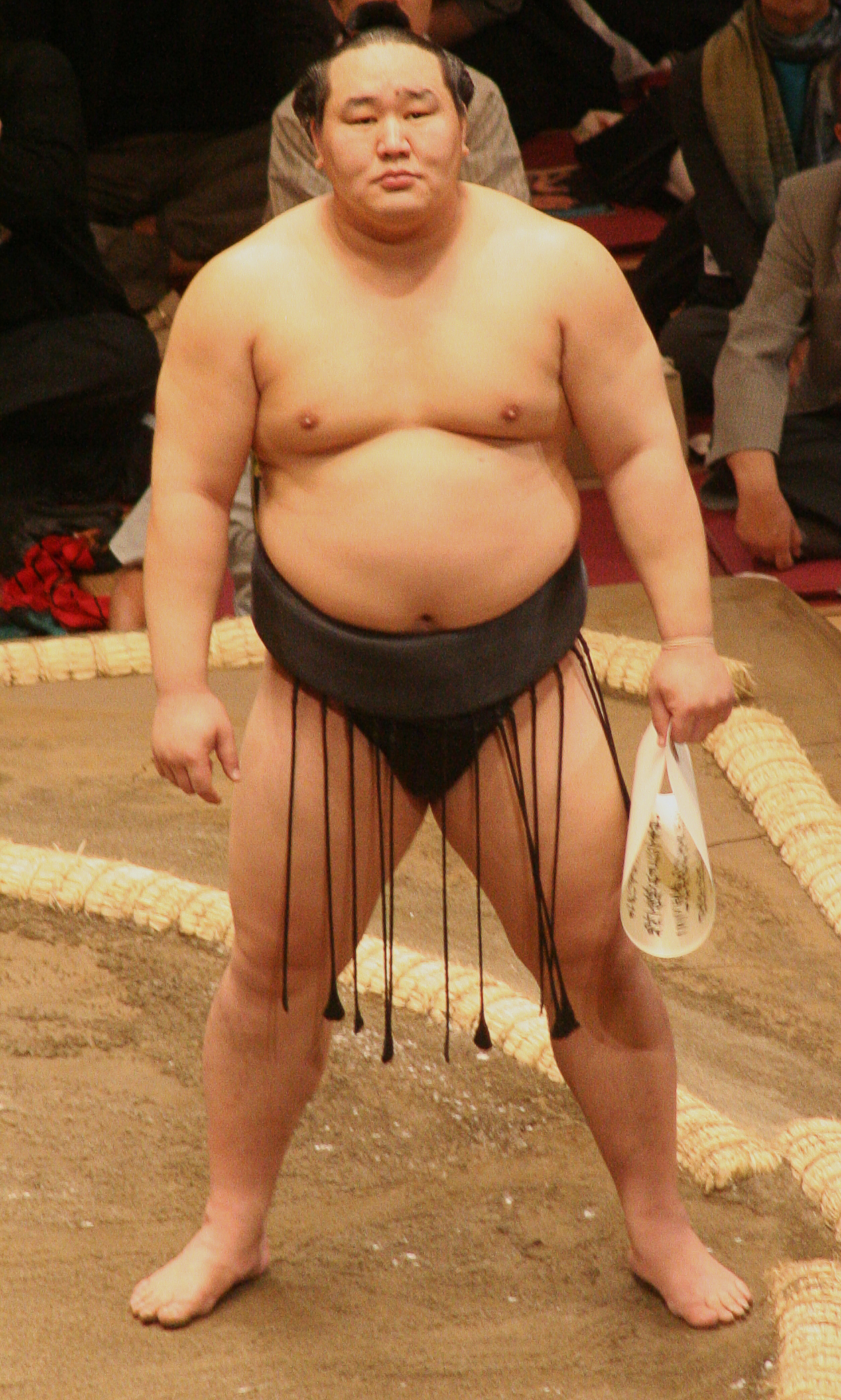 Sumo wrestler Asashōryū Akinori. Opening day of the 2009 May Sumo Tournament in Tokyo, Japan.